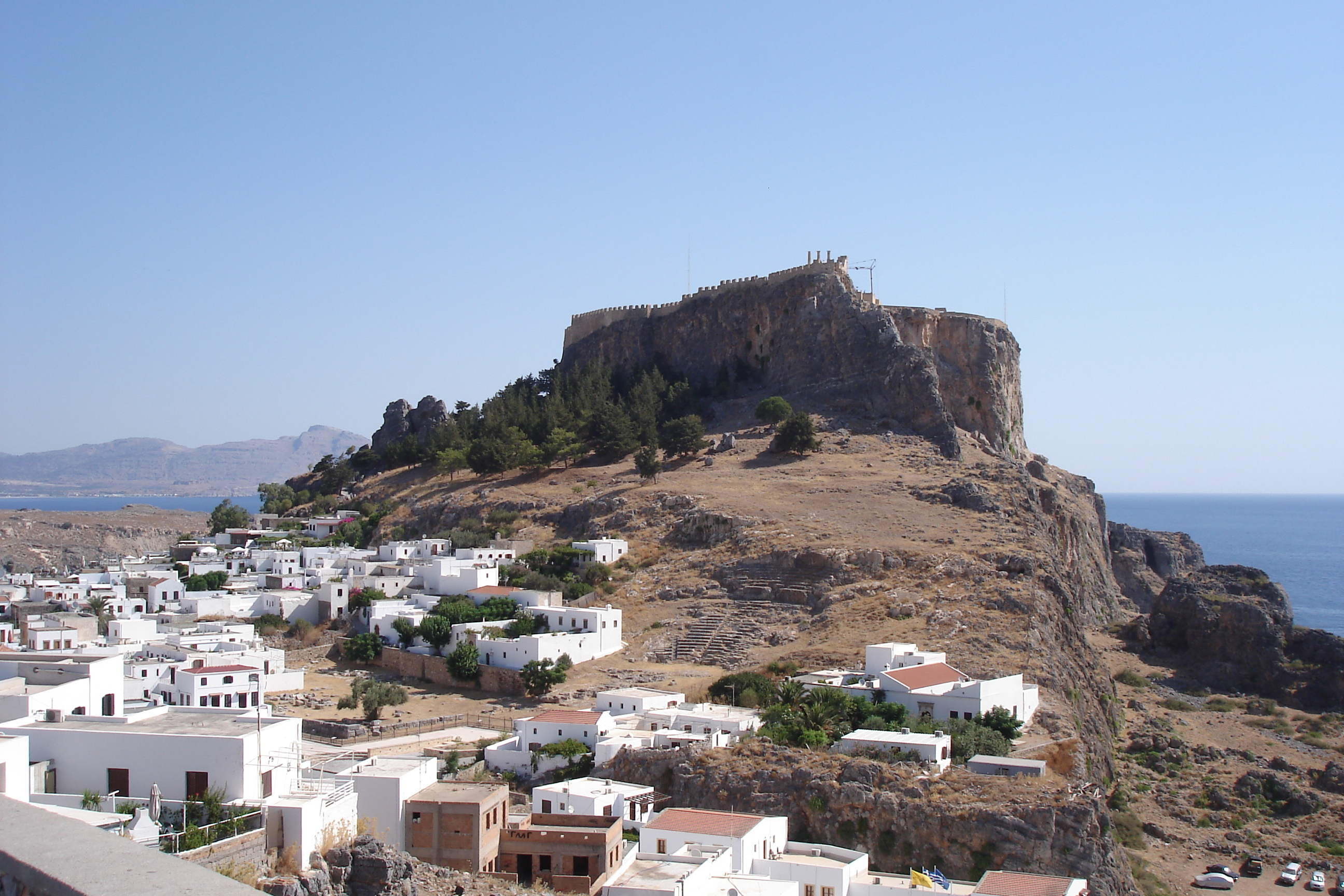 Akropol in Lindos (Rodos).